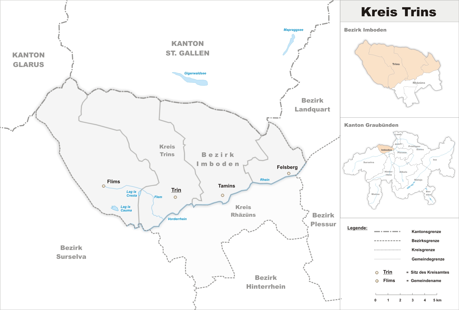 Municipalities in the circle of Trins